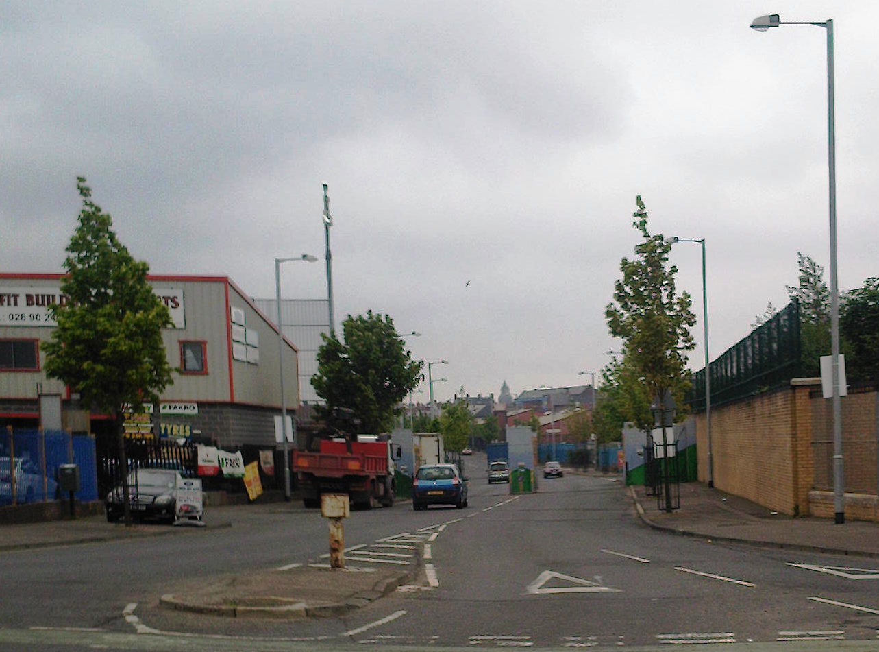 Lanark Way, Belfast as viewed from the Springfield Road